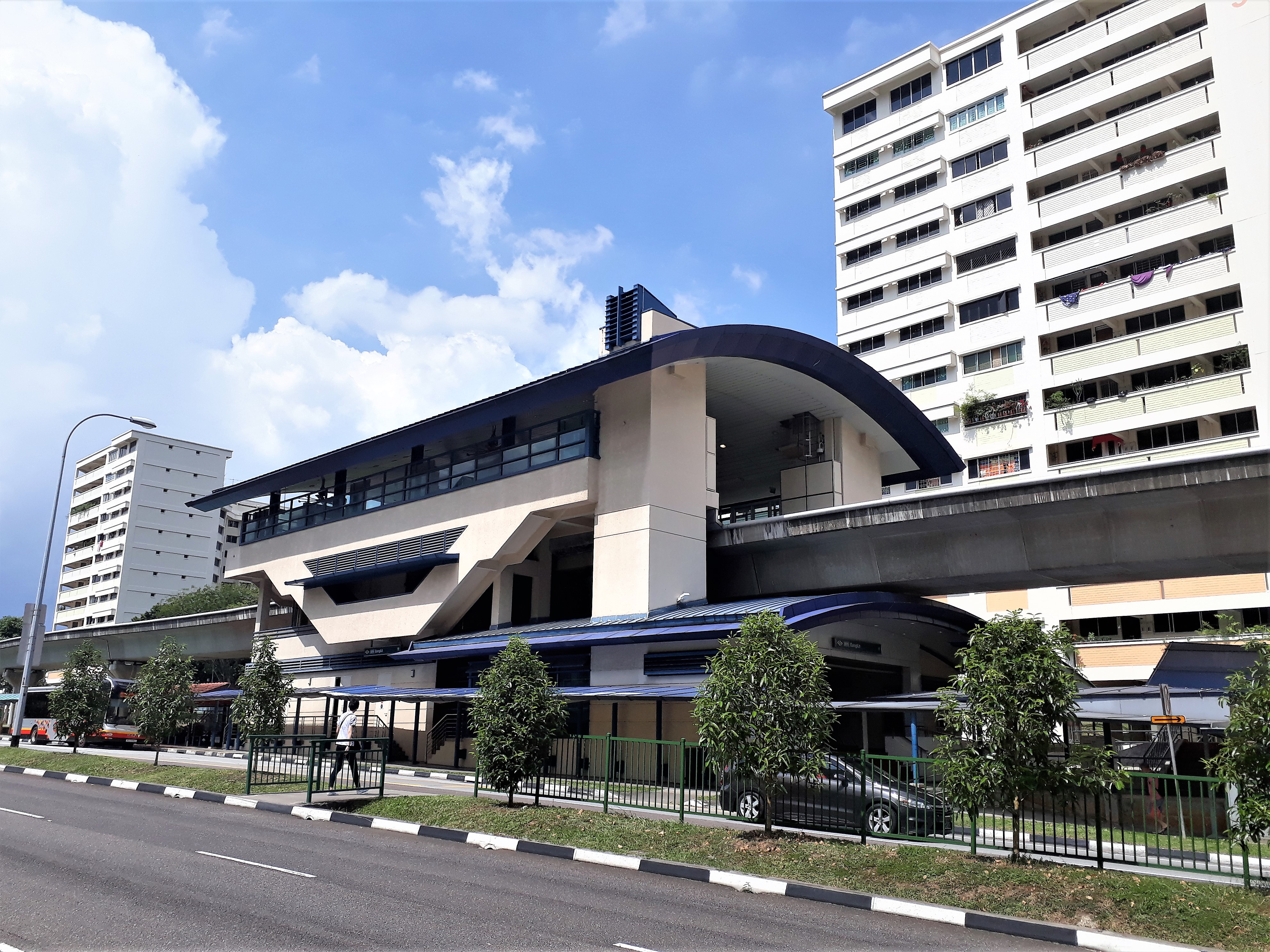 Bangkit LRT Station